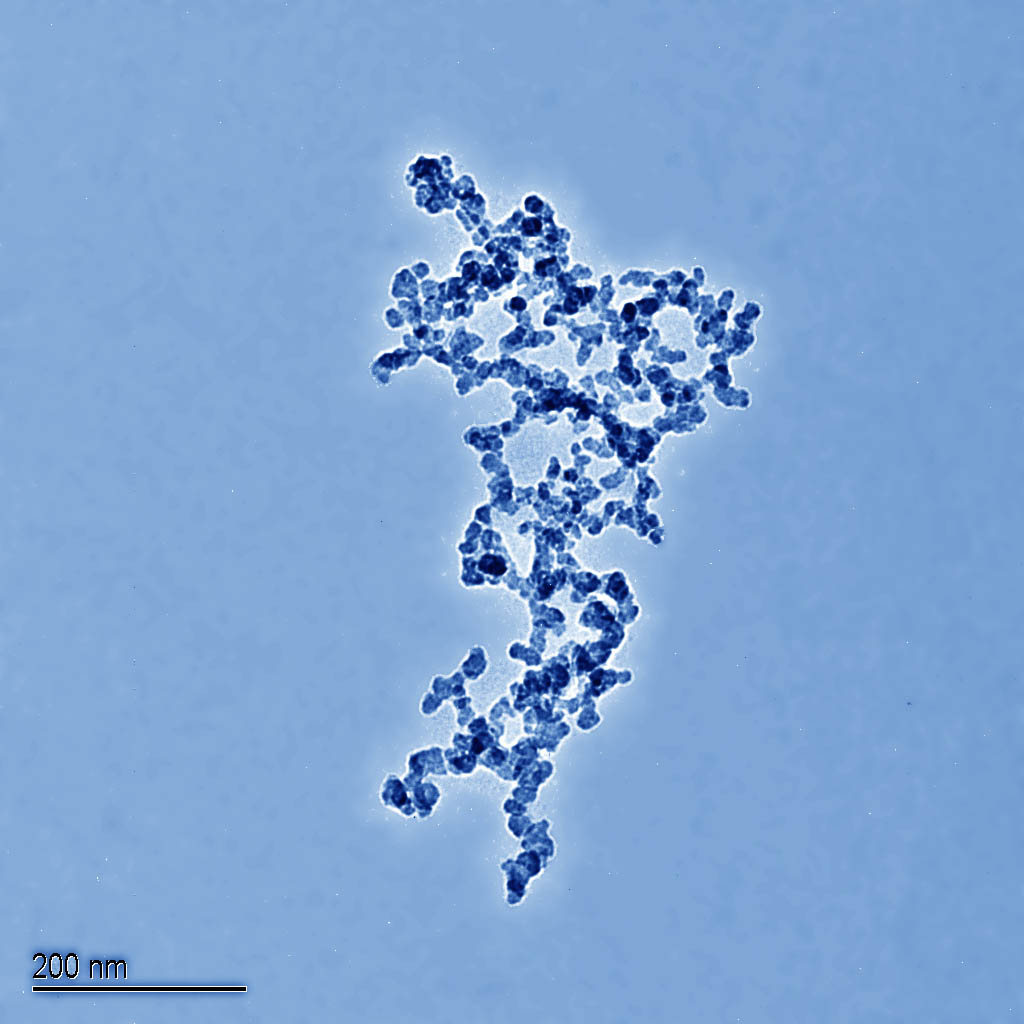 Nanoparticle and nanotechnology - CILAS